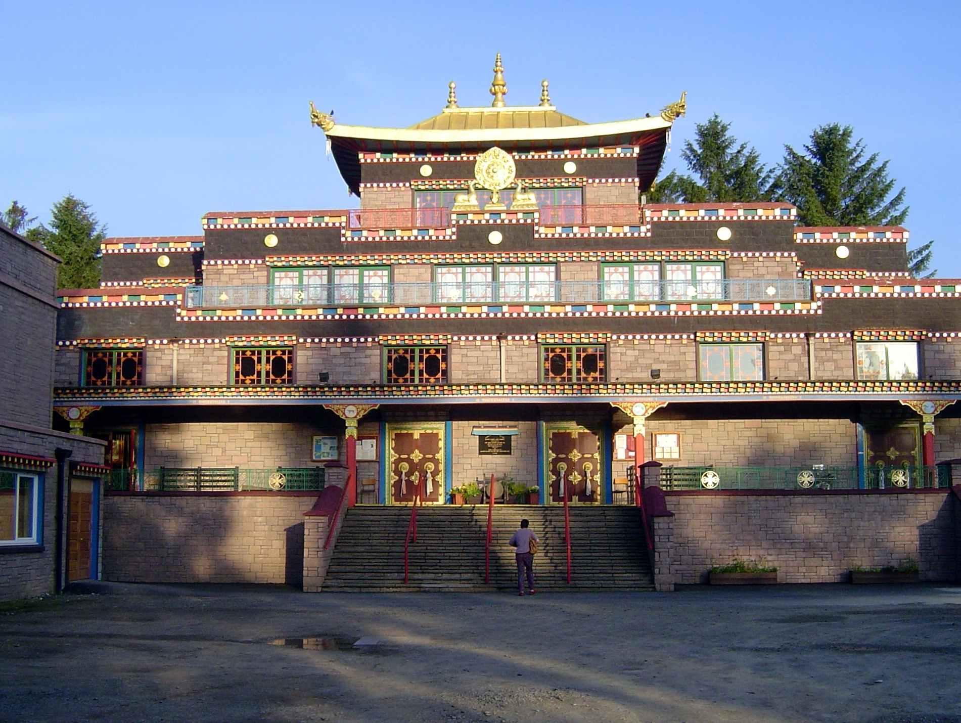 The main temple of Kagyu Samyé Ling Monastery and Tibetan Centre, Eskdalemuir, Dumfries and Galloway, Scotland seen just before Green Tara Prayers at 05:00. It took them quite a long time to do it but as we can see in the 2012 December image, the courtyard is now beautifully paved.